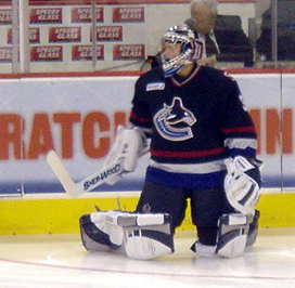 Alex Auld during the pregame warmup of the 2005-06 season opener with the Vancouver Canucks.